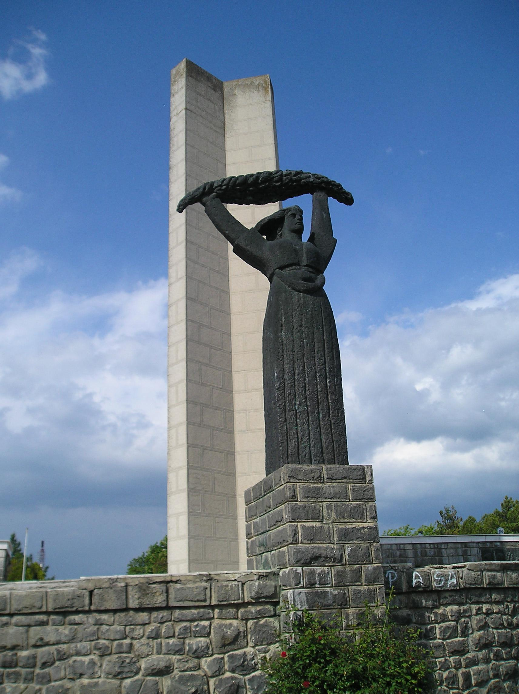 "Monument of the People's Revolution" in Kumanovo, also known as "Spomen Kosturnica - Kumanovo". The main element of the monument is a proud young woman which is a materialization of Macedonia, holding a sheaf in her hands.